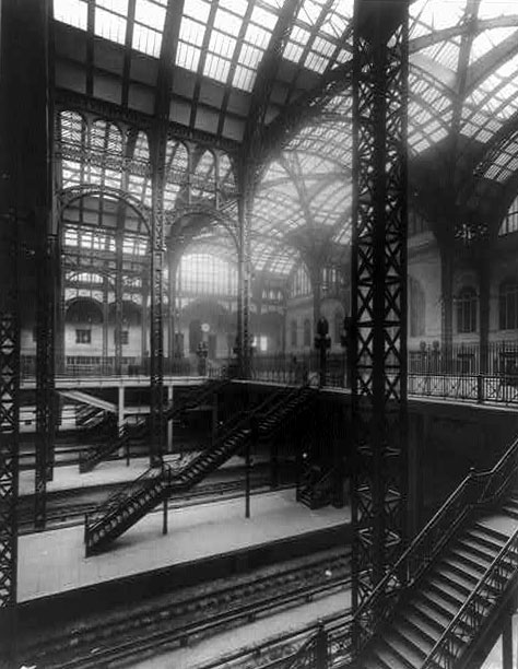 The concourse and steps leading down to the platforms at Pennnsylvania Station (New York City). The railing along the stairs are the only remainders from the original station that can still be seen today, though only on some platforms.